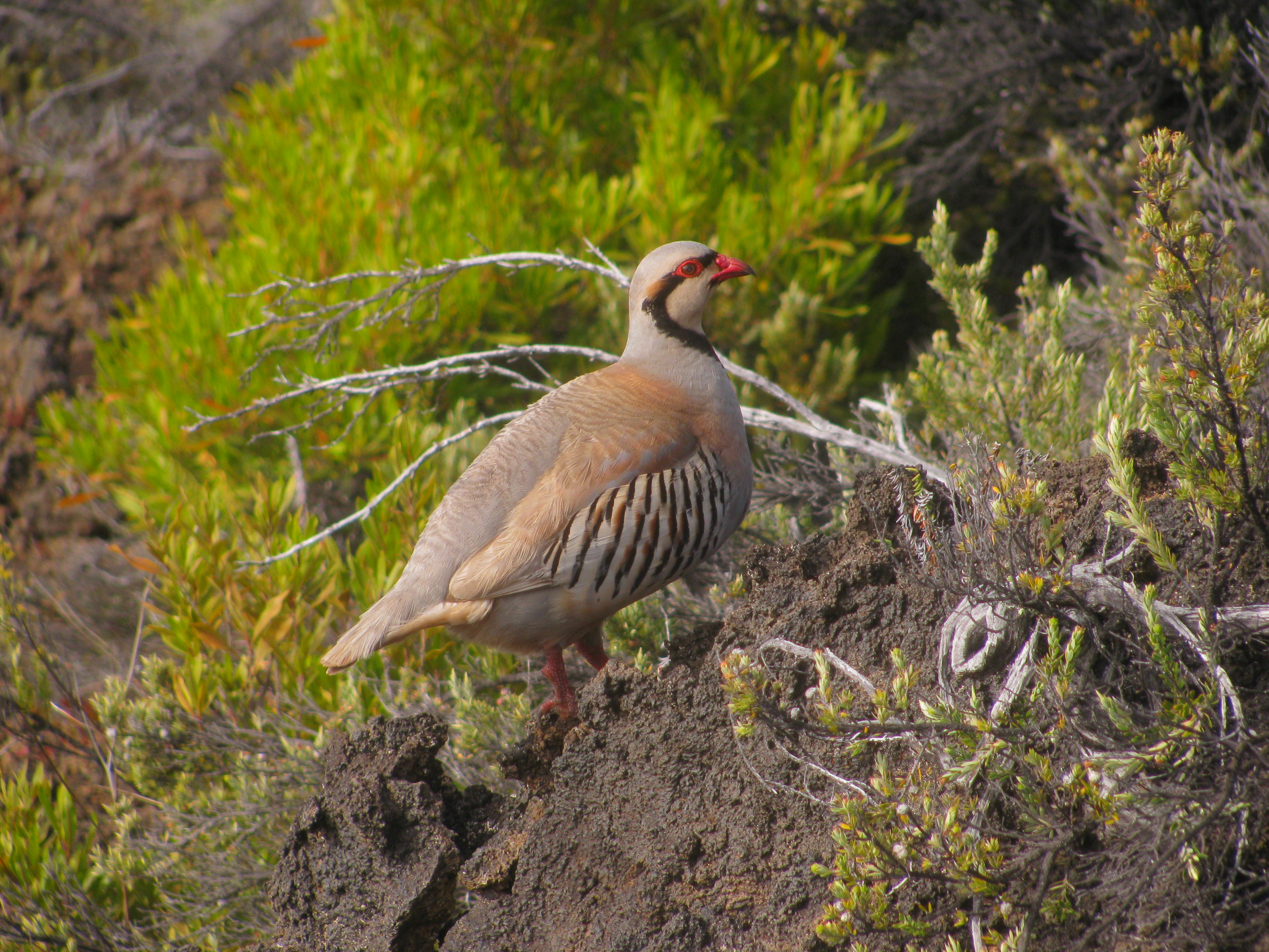 Dodonaea viscosa (Aalii) Habit with chukar at Red Flow Haleakala National Park, Maui, Hawaii. March 18, 2014 #140318-4266 Image Use Policy